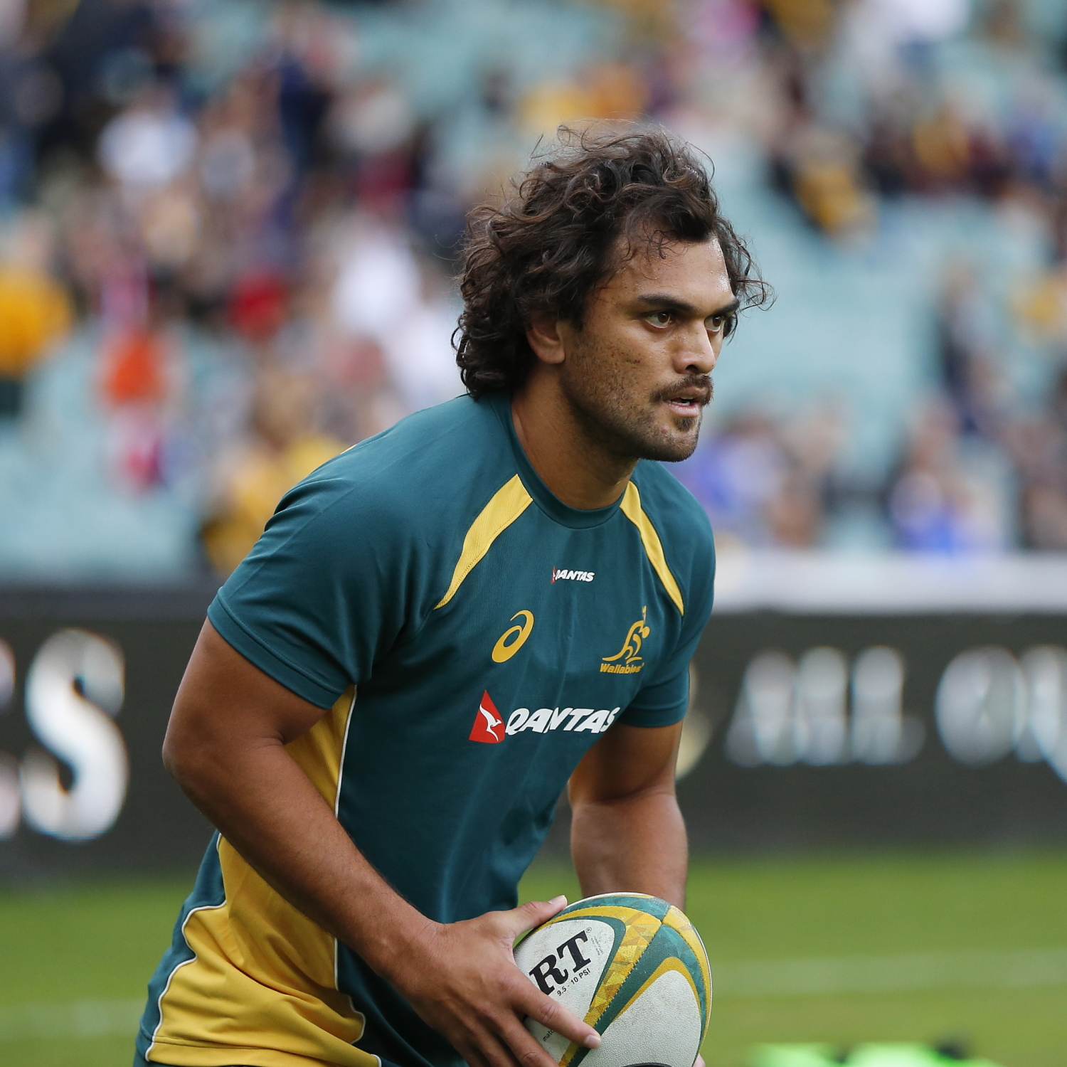 2017.06.17.14.42.49-Karmichael Hunt The 2017 mid-year rugby union international, 17 June 2017, Australia vs Scotland at Allianz Stadium, Sydney